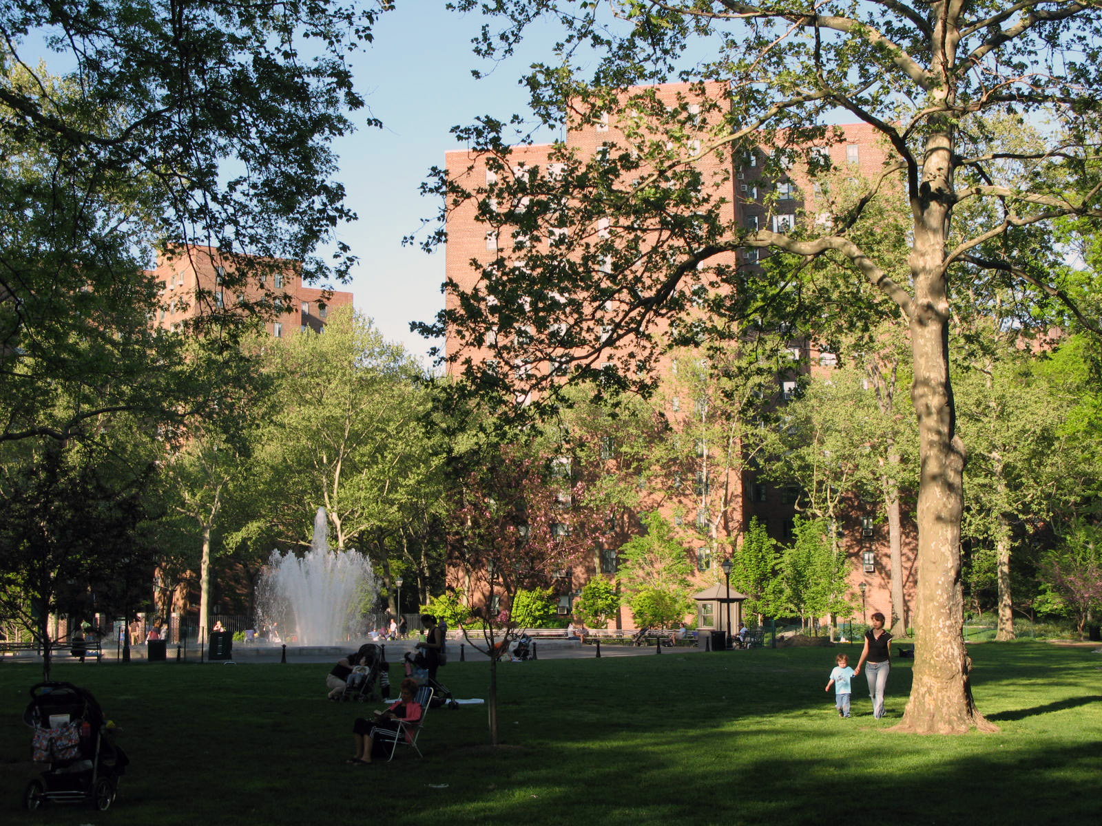 Stuyvesant Town, New York City